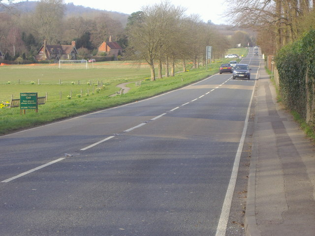 Stane Street A29 by Ockley cricket pitch.